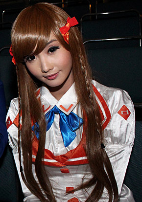 Filipina cosplayer Alodia Gosiengfiao at Anime Expo 2013, 4 July 2013.